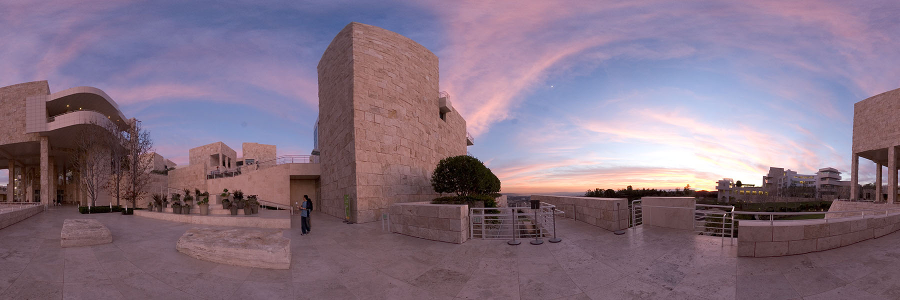 Panorama of a Getty Center terrace, below the Exhibition Pavillion at dusk. Credits Roger Howard